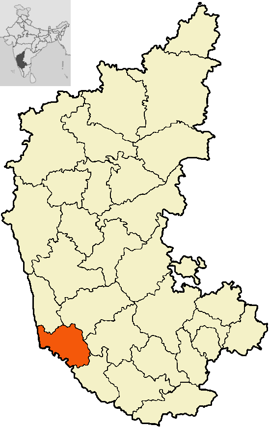 Locator map of Dakshina Kannada district, Karnataka, India